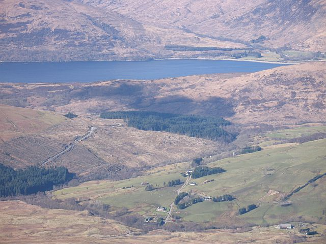 Blarmachfoldach A crofting community above Fort William, seen from Mullach nan Coirean. The bend of the River Kiachnish can be seen beyond the forest with Loch Linnhe beyond. Colours indicate clearly where the best agricultural land is found.